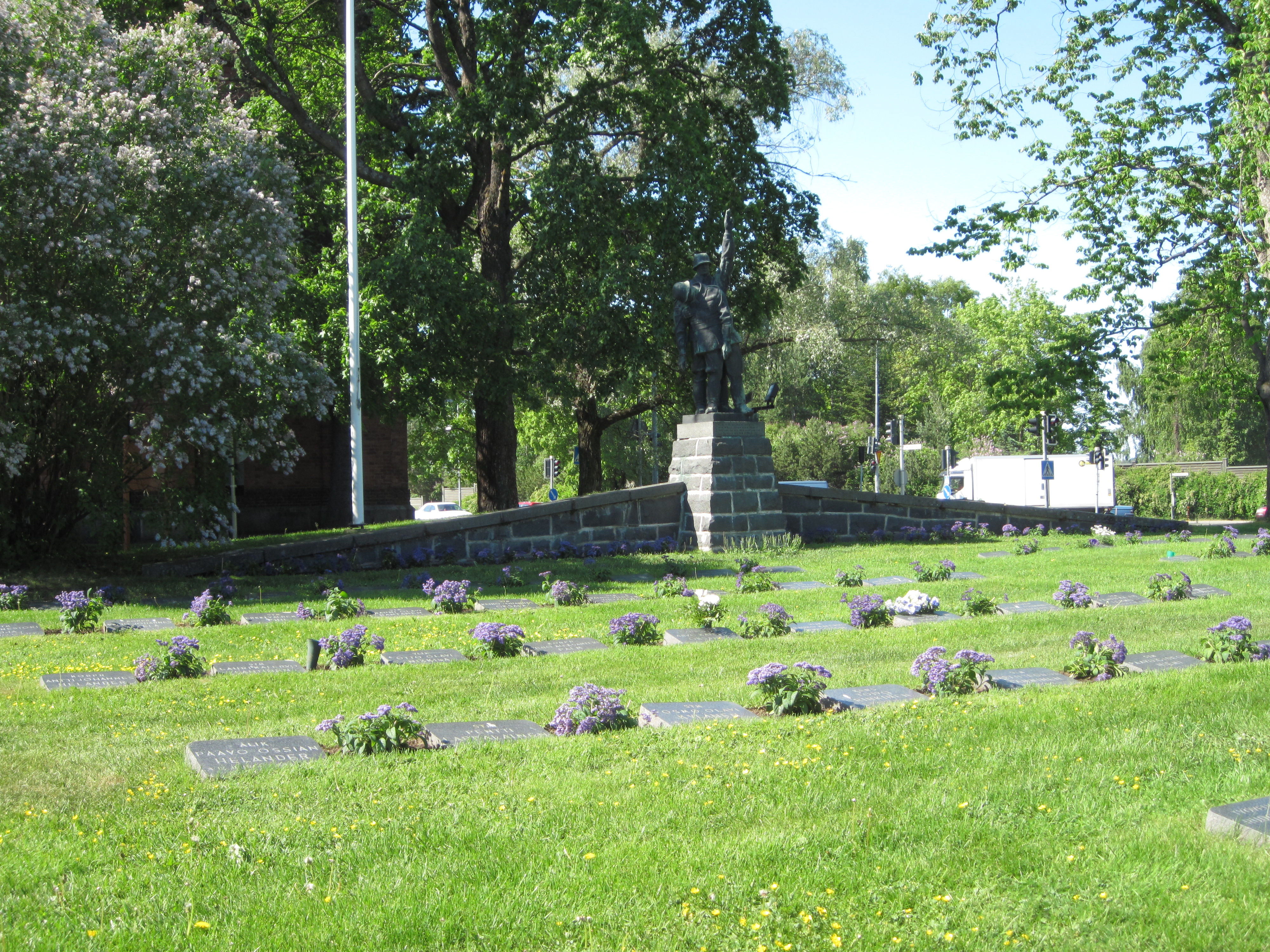 Military cemetary at Messukylä church in Tampere, Finland